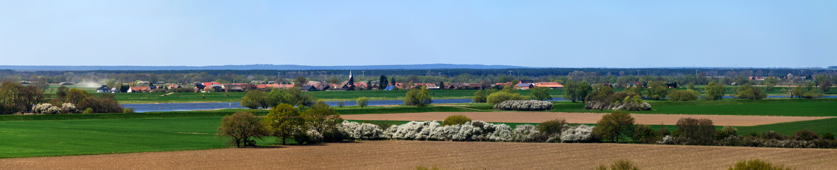 View from the Klietznick observation tower over the Elbe (DE3437302 Elbaue between Derben and Schönhausen)